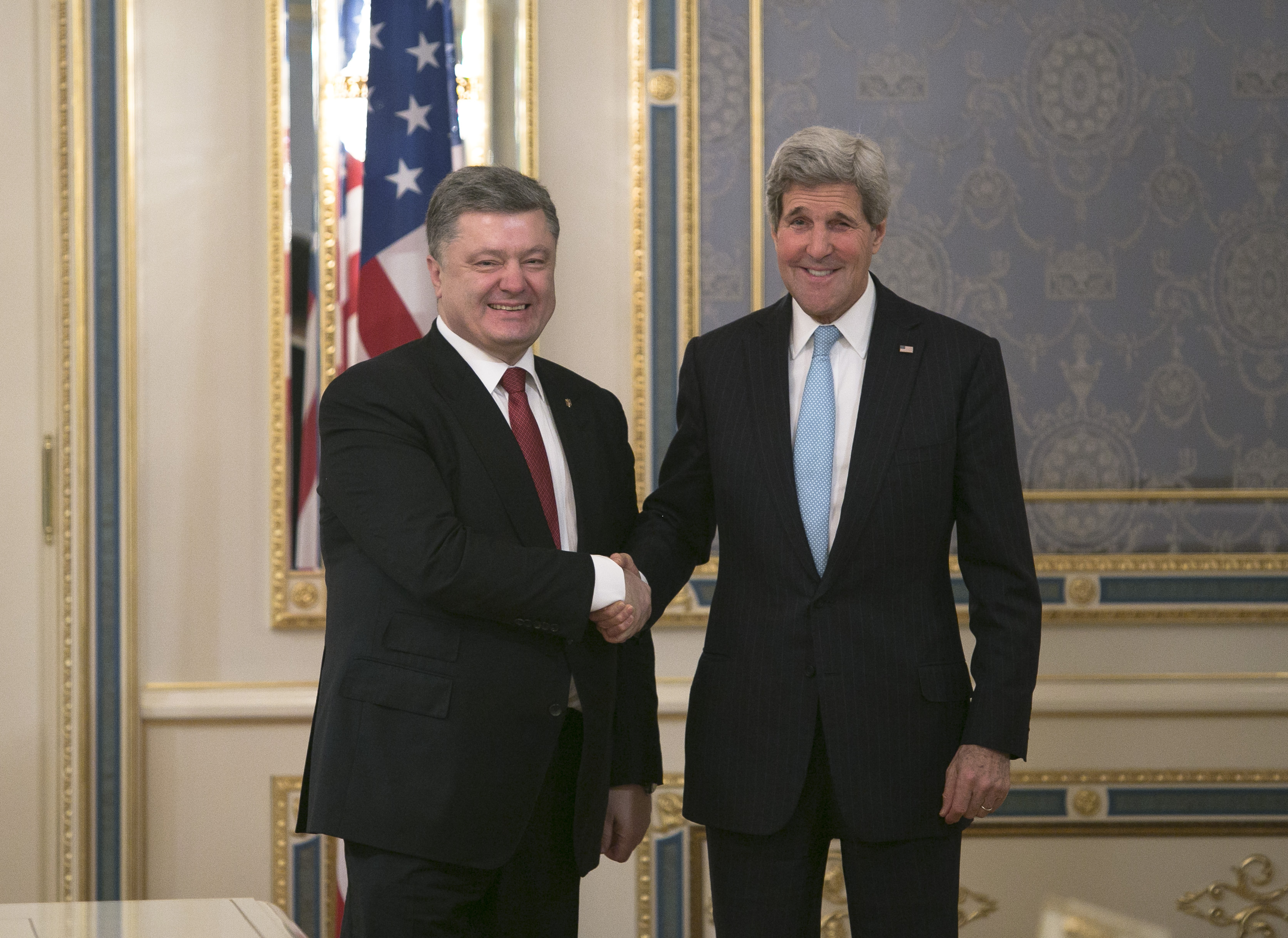 Secretary Kerry's Visit to Kyiv, February 5, 2015, Meeting with President Poroshenko